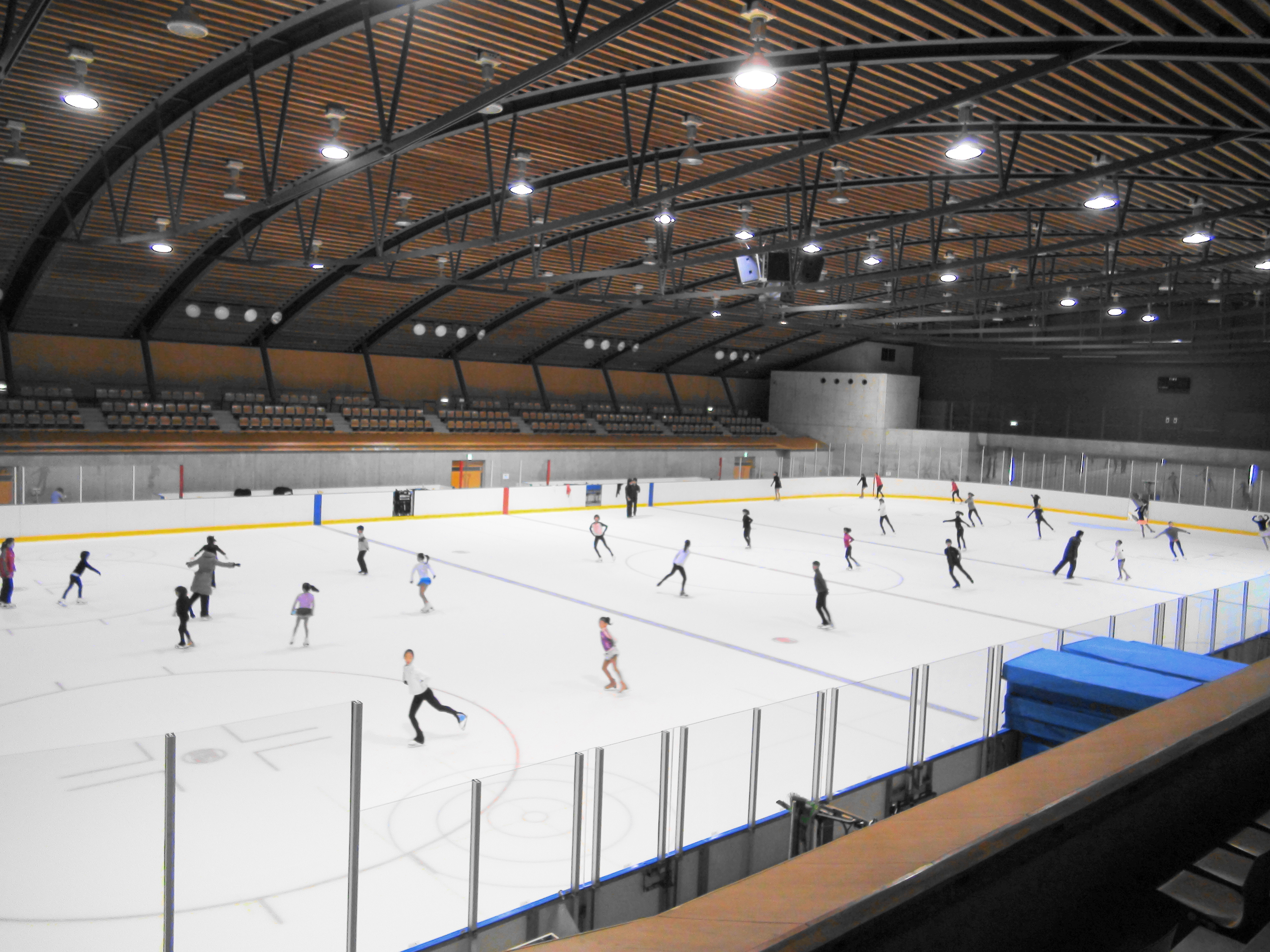 Kose sports park Ice Arena indoor skating rink